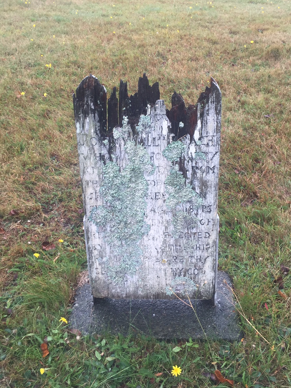 HMS Winschester, Royal Naval Burying Ground, Halifax, Nova Scotia (1841)